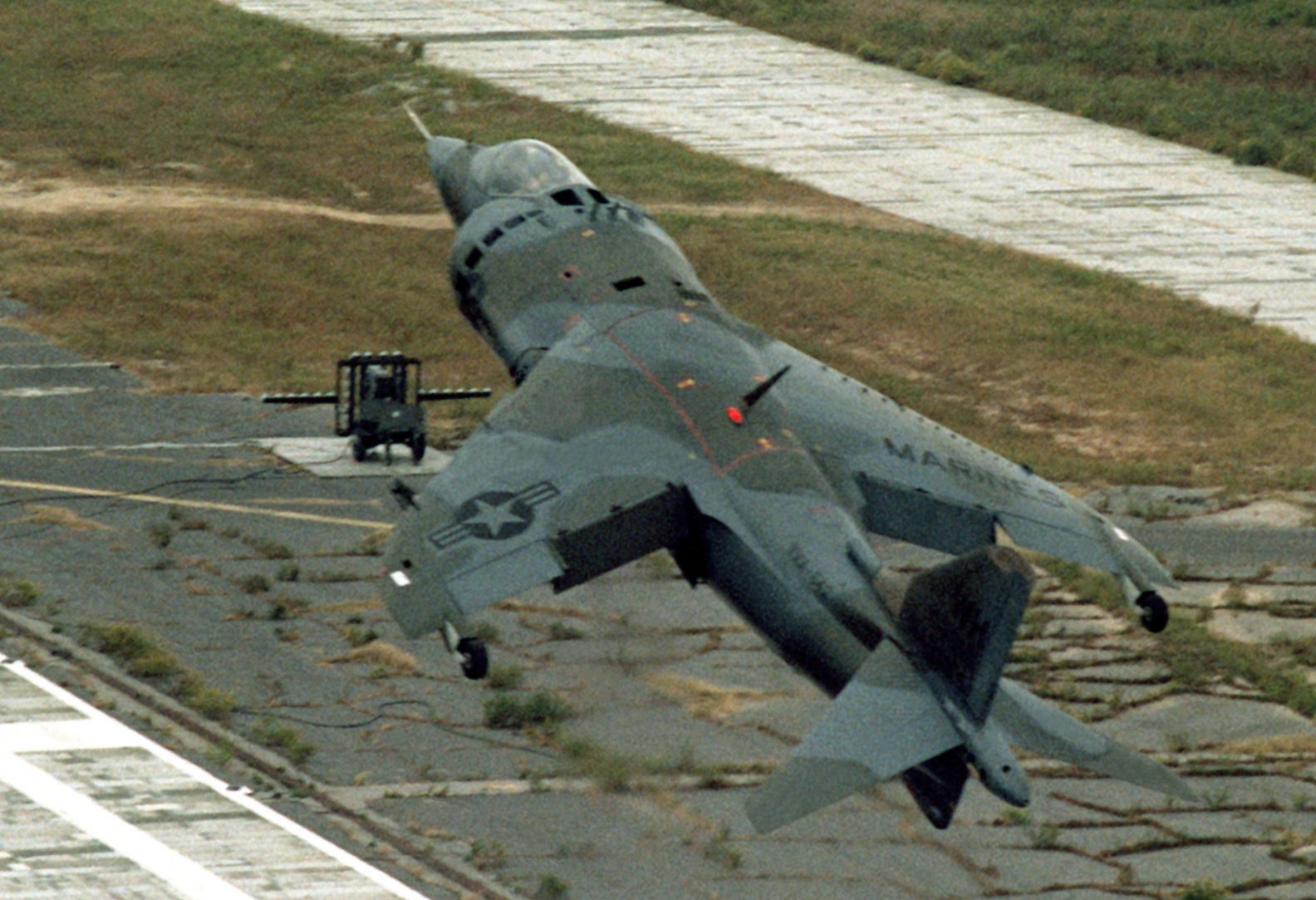 A U.S. Marine Corps Hawker Siddeley AV-8A Harrier from Marine Attack Squadron VMA-231 Ace of Spades taking off from the Marine Corps Auxiliary Landing Field Bogue, North Carolina (USA). Note the optical landing mirror used on aircraft carriers in the background.